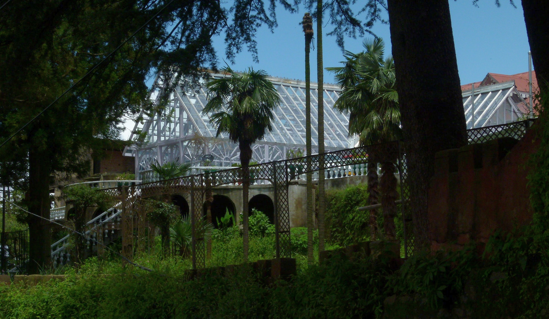 Rothney Castle in Shimla, front entrance.